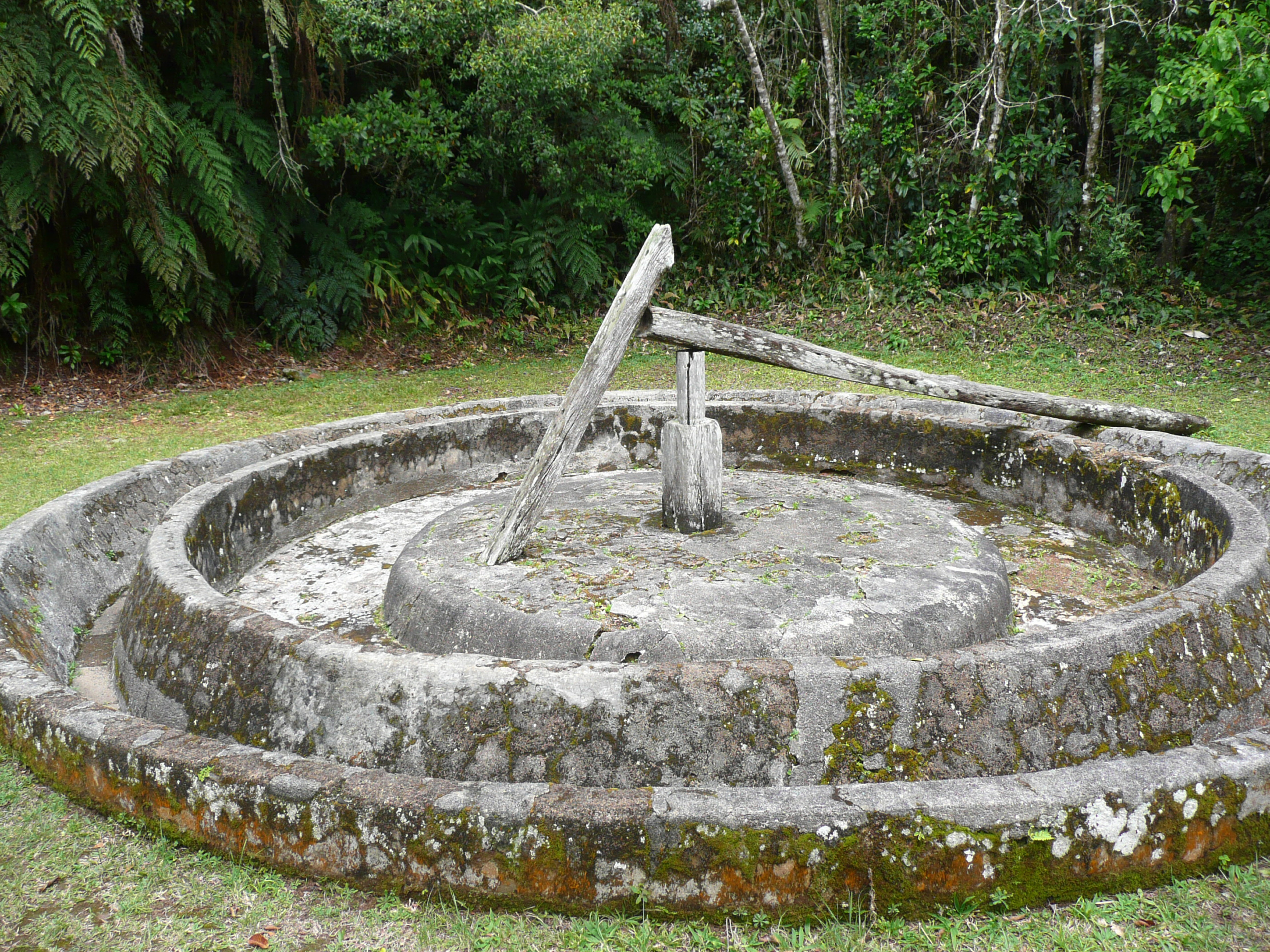 Cuba, historic coffee plantation cafetal Isabelica. Mill to process beans - Molino de pilar